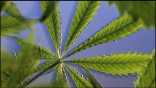 Cannabis leaf From ENWP [1]